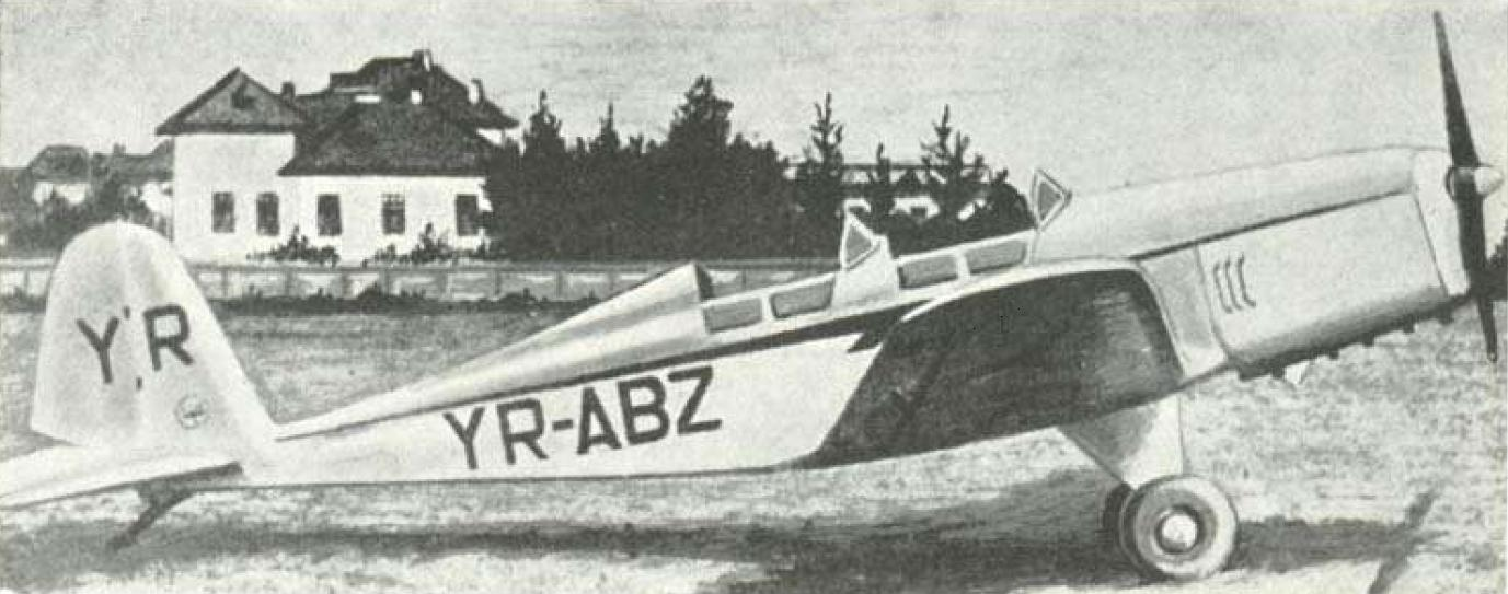 ICAR Universal w de Haviland Gipsy Major engine